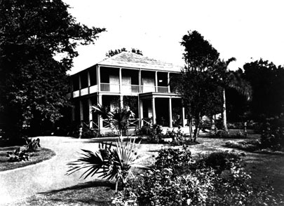 Bernice Pauahi Bishop's residence at Haleʻākala build by her father Abner Paki. The figure show seated on the lower veranda is Charles Reed Bishop.